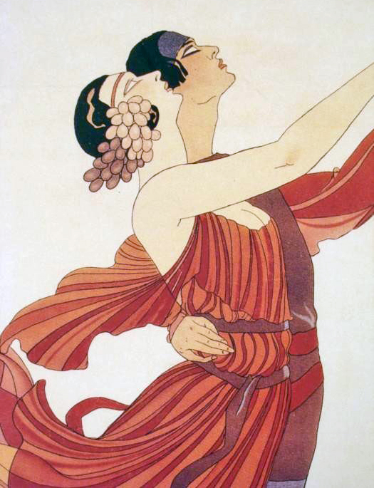 Clotilde et Alexandre Sakharoff - Original Artwork - Dancing, 1921 Ink, Watercolor, Opaque Paint, Pencil 9 1/2 × 8 in; 24.1 × 20.3 cm